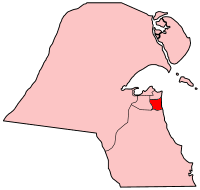 Map of Kuwait showing Mubarak Al-Kabeer governorate. Made by User:Golbez.